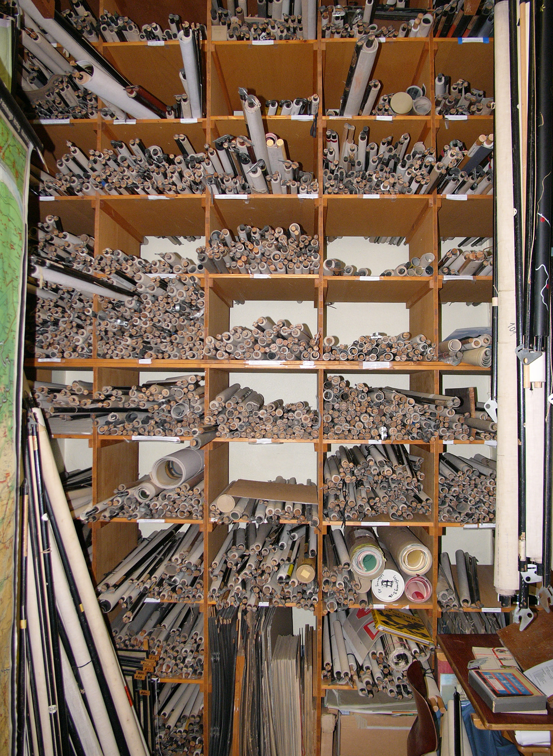 Archive of old maps and plates (Schulhistorische Sammlung, Bremerhaven)